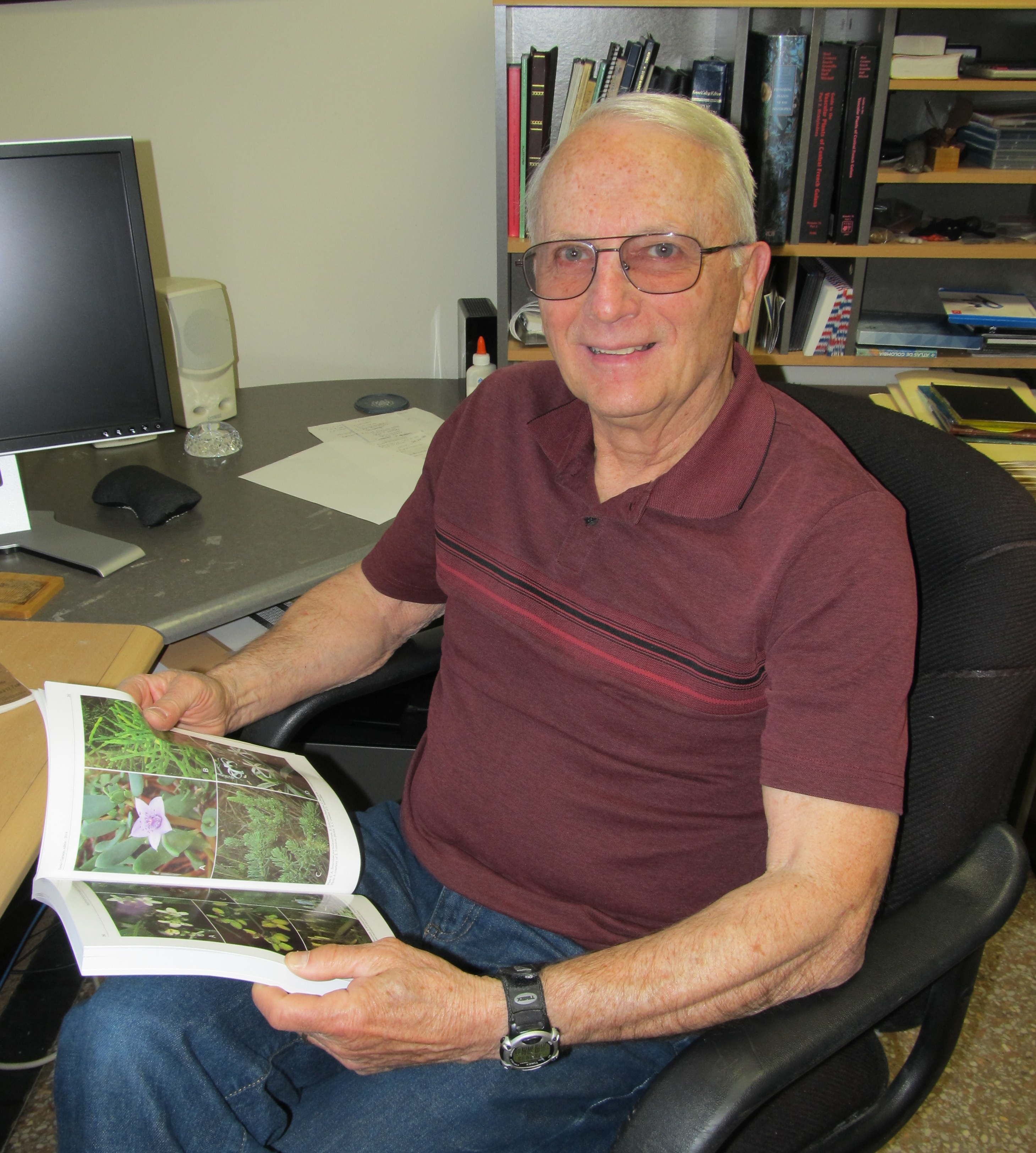 Scott A. Mori in his office at the New York Botanical Garden after receiving a book about mangrove plants, Oct 2015. Photo by Xavier Cornejo.